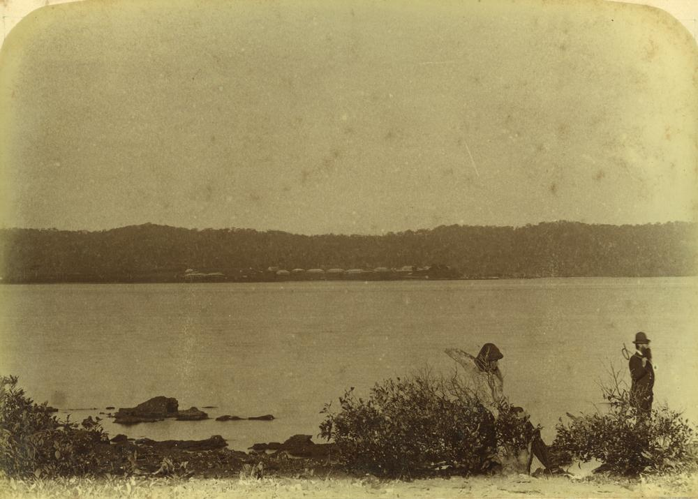 Dunwich shore viewed from Peel Island, ca. 1885